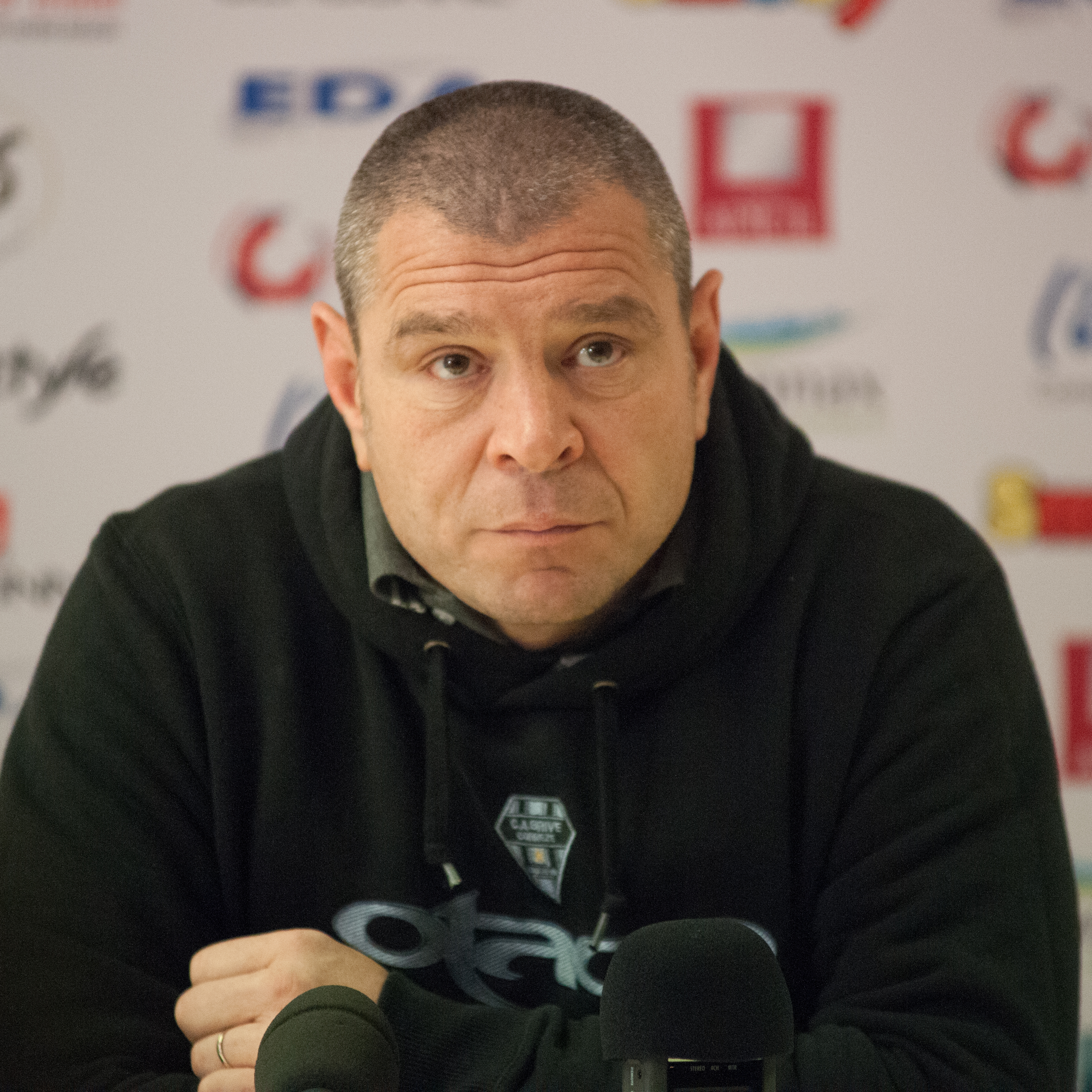 The making of this document was supported by Wikimedia CH. (Submit your project!) For all the files concerned, please see the category Supported by Wikimedia CH. US Oyonnax vs. CA Brive, 30th November 2013